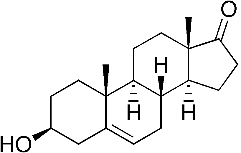 chemical structure of dehydroepiandrosterone (DHEA)